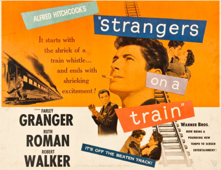 Theatrical poster for the film Strangers on a Train